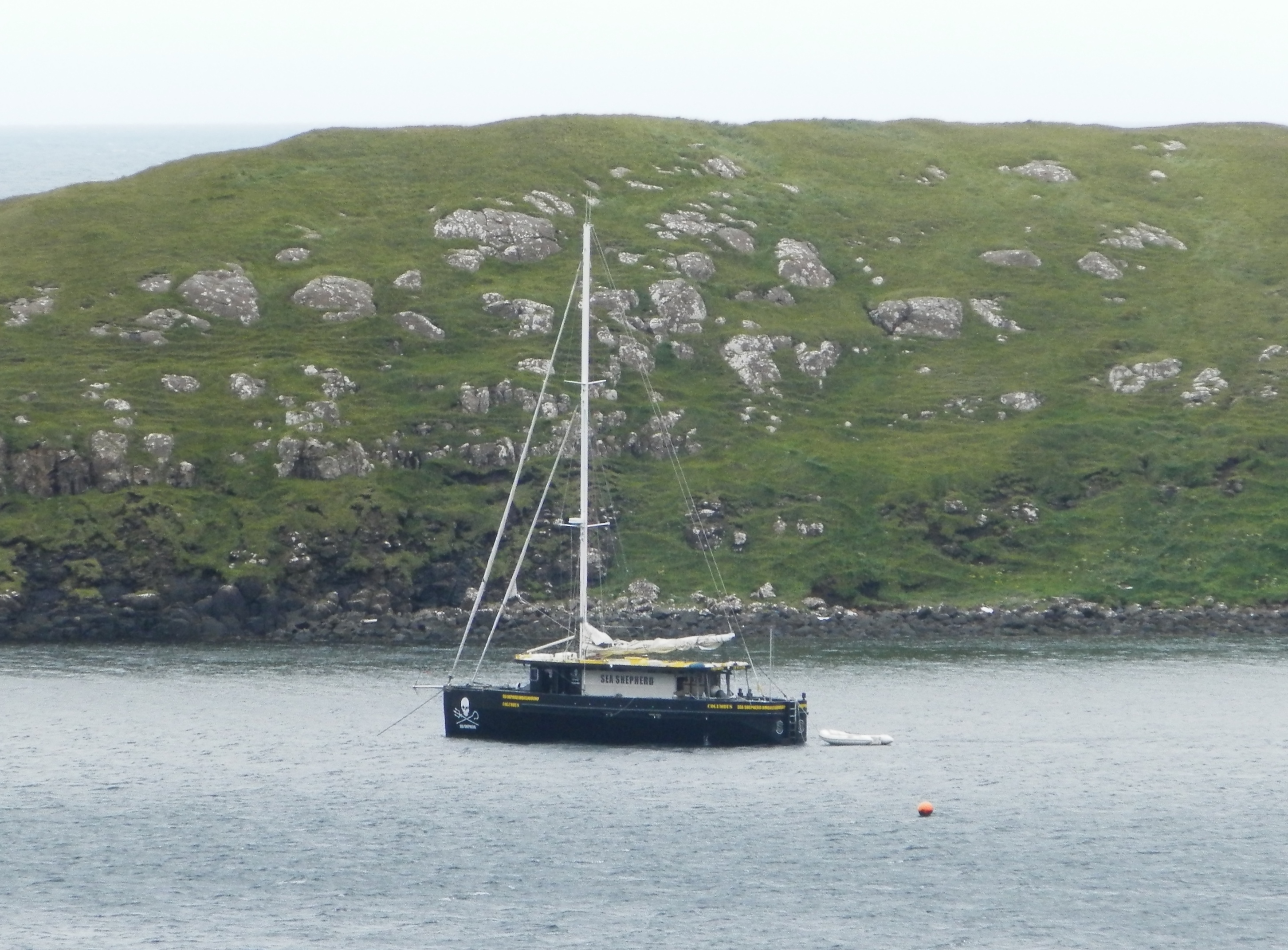 Columbus, one of Sea Shepherd Conservation Societies ships. It is lying in the bay of Tjaldavík, near Øravík og Tvøroyri in Suðuroy, Faroe Islands, next to the islet Tjaldavíkshólmur. The photo was taken on 12 August 2014. Sea Shepherd runs a campaign in the Faroe Islands from June to October 2014 named GrindStop 2014, the campaign is against the slaughter of pilot whales.